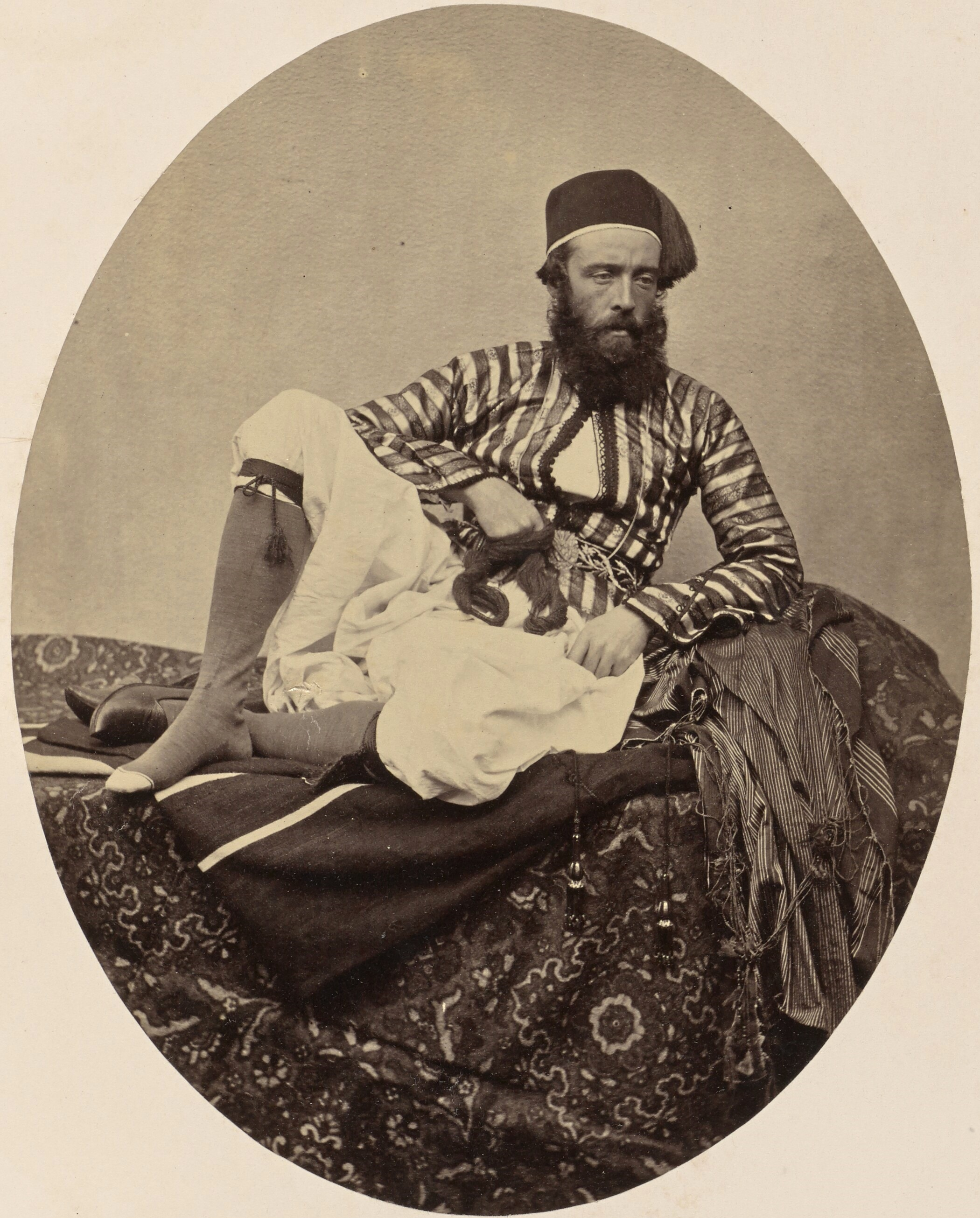 Self-portrait for Francis Firth in Middle Eastern costume.